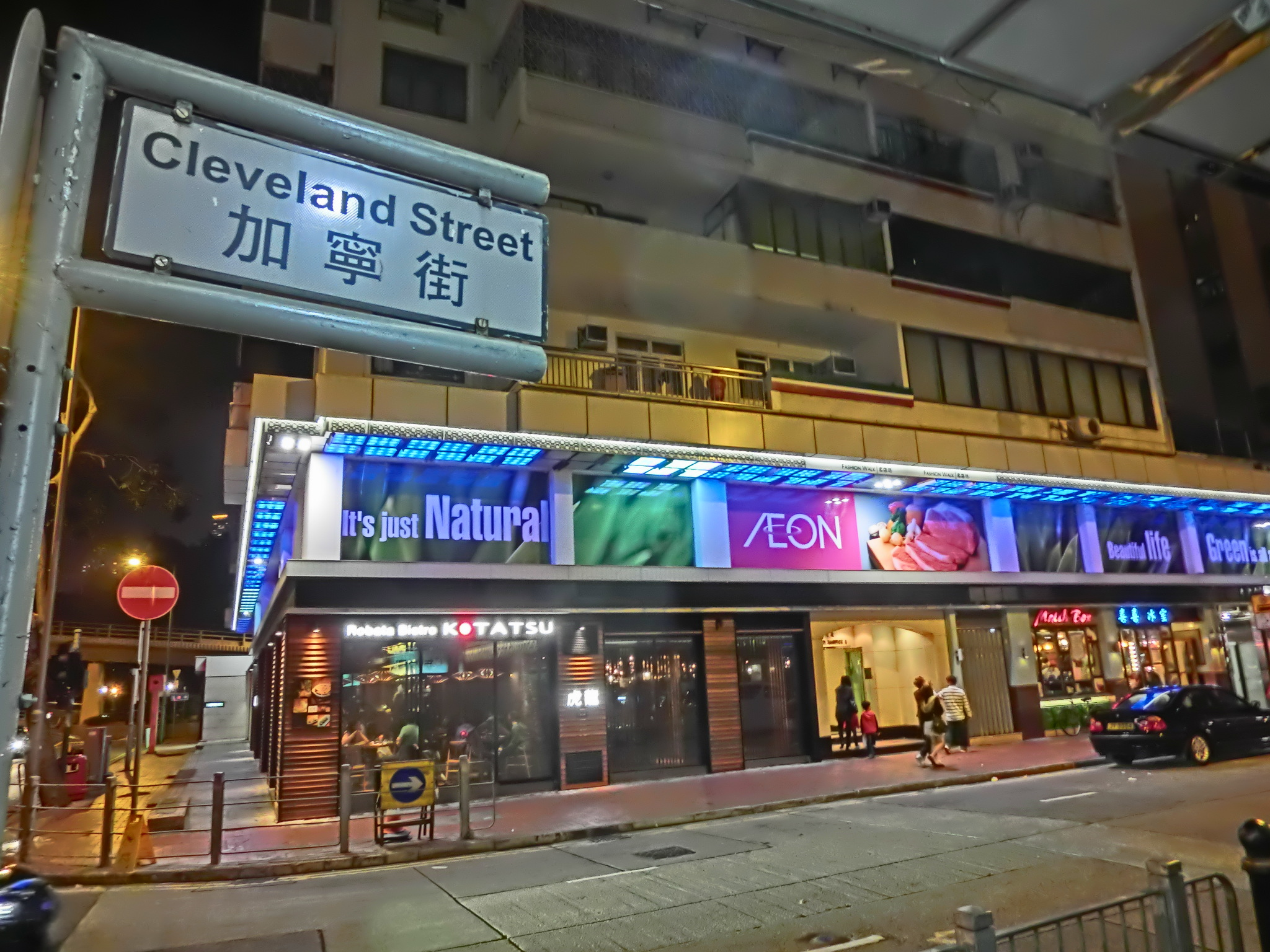 銅鑼灣 加寧街, Cleveland Street, Causeway Bay, Hong Kong